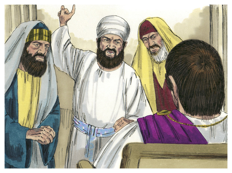 Biblical illustration of Gospel of Matthew Chapter 27